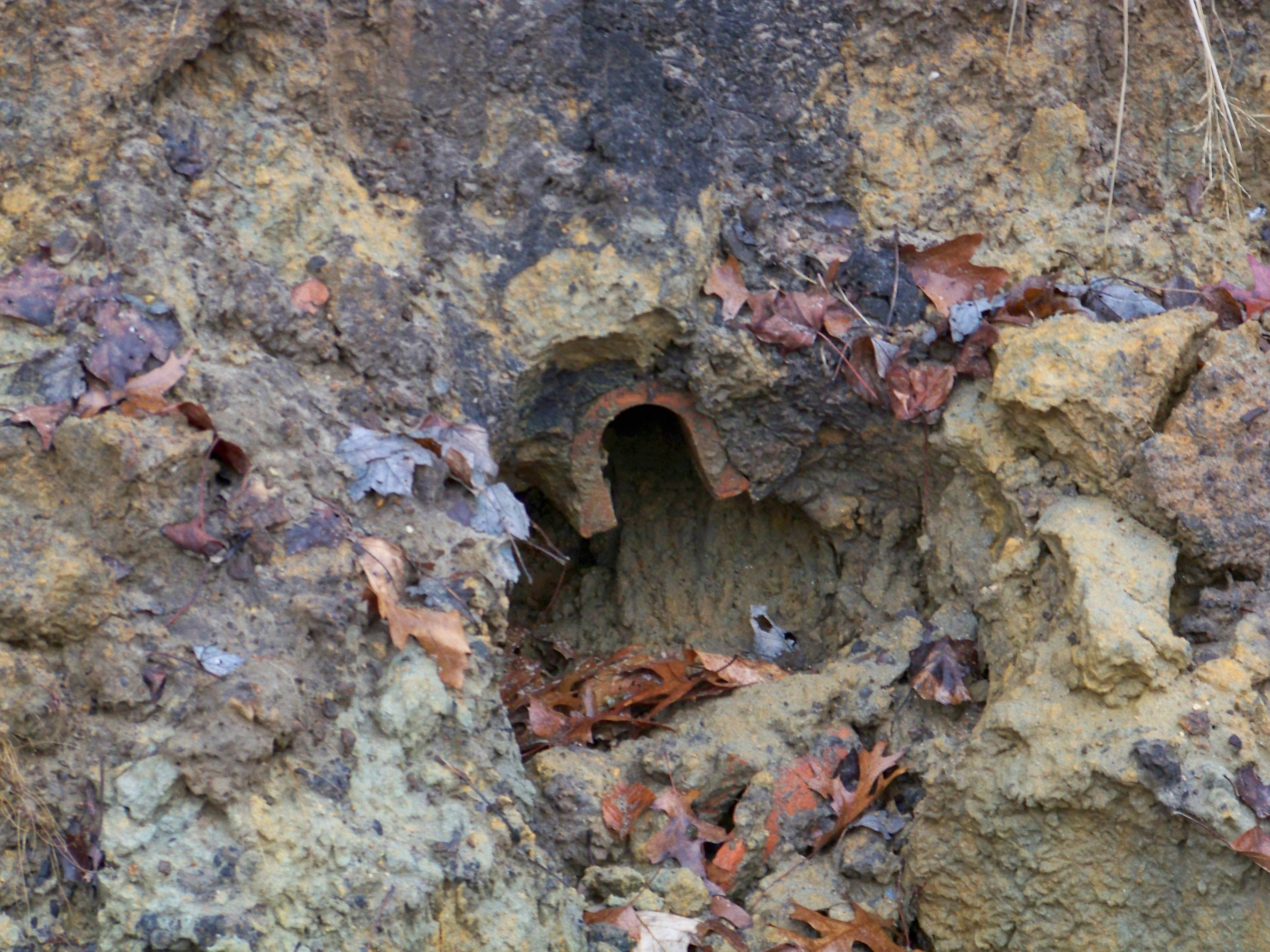 Old terra cotta drain tile uncovered during excavation in Southern New Jersey.